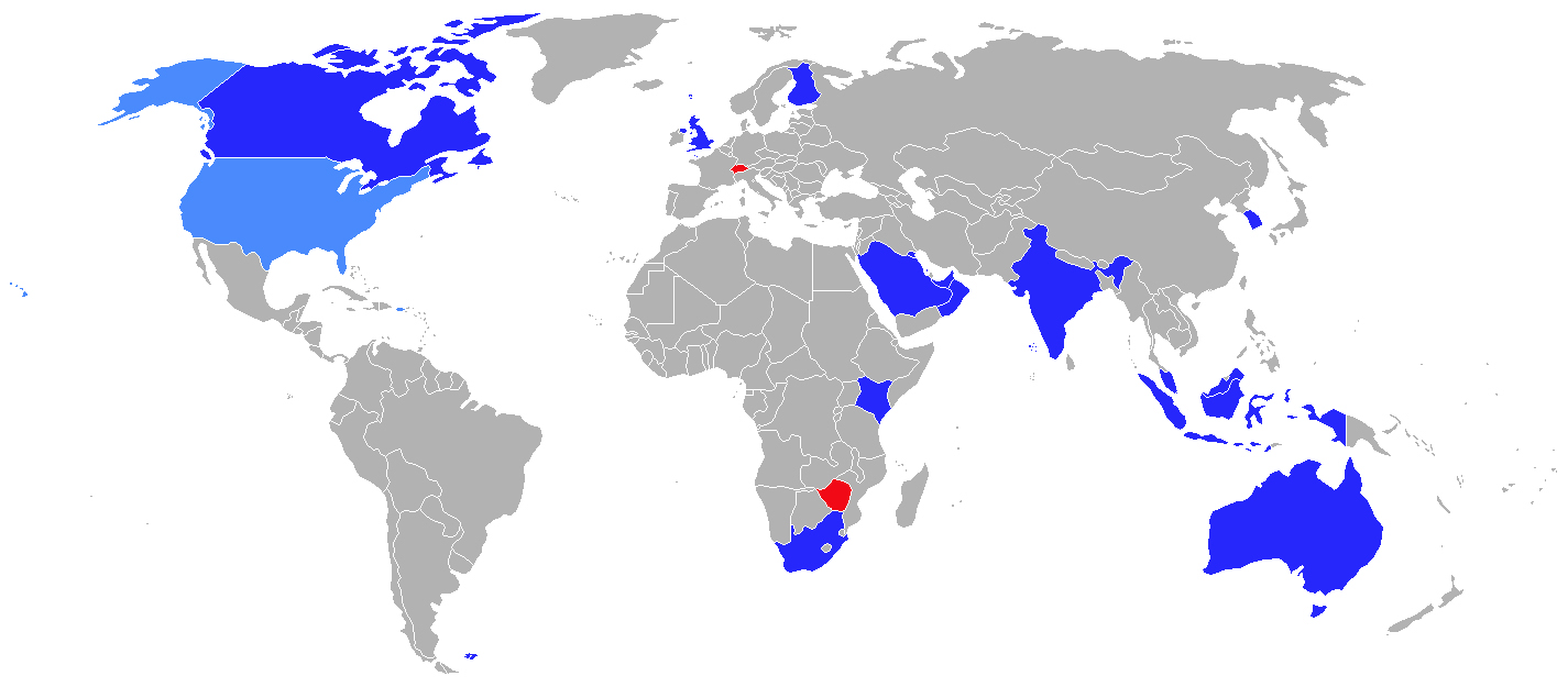 Current operators of the Hawk are shown in dark blue, former operators in red and operators of the T-45 Goshawk in light blue.